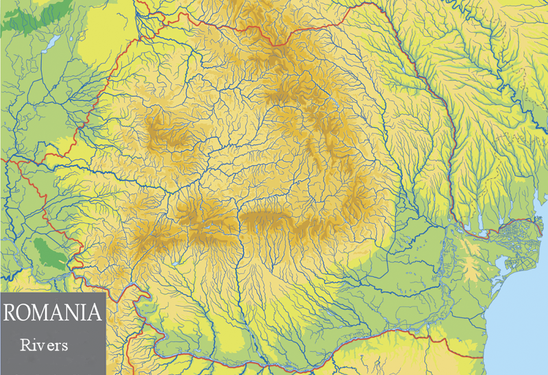 Map of Romania with main rivers